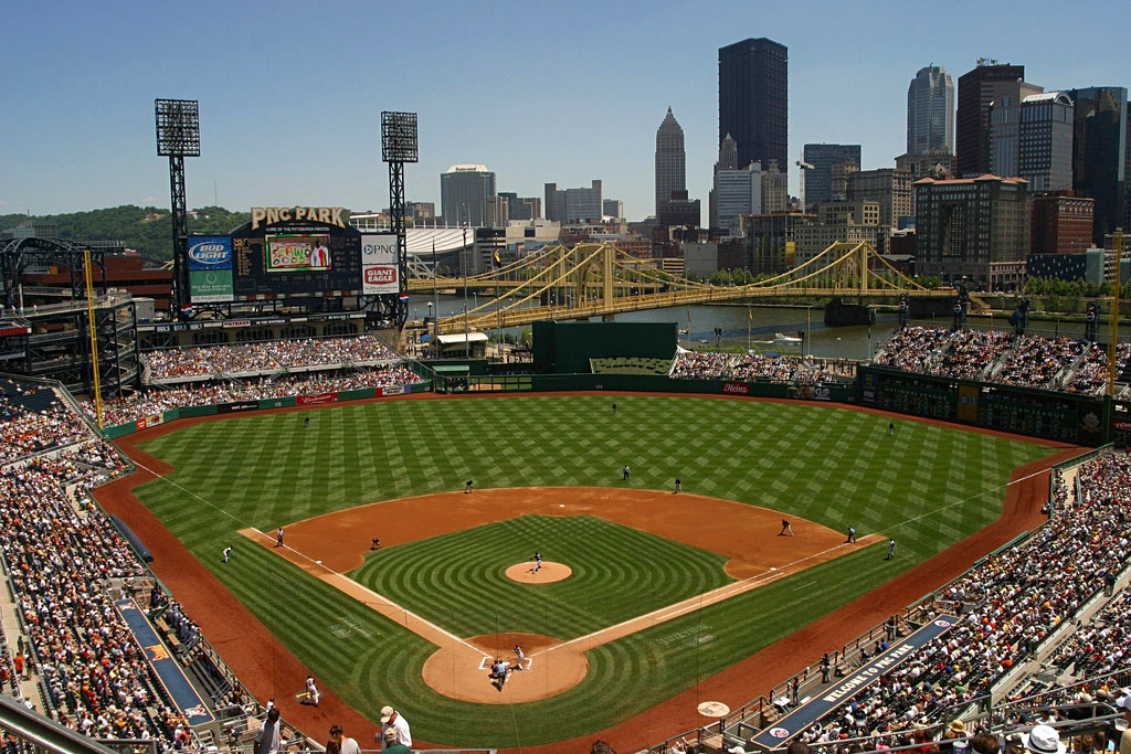 First pitch, Mets vs Pirates, 7.20.05